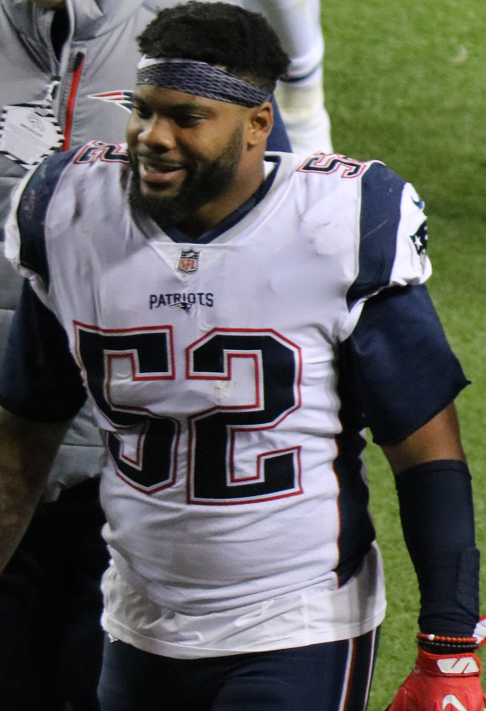 Elandon Roberts, a National Football League player.